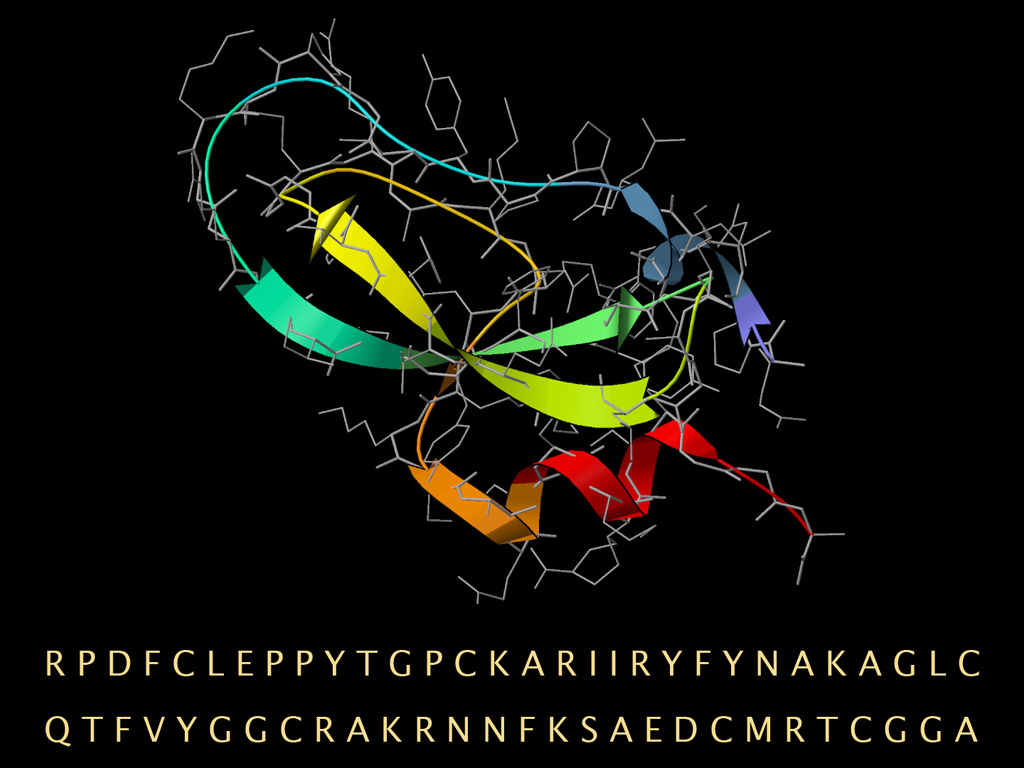 Protein folding: amino-acid sequence of bovine BPTI (basic pancreatic trypsin inhibitor) in one-letter code, with its folded 3D structure represented by a stick model of the mainchain and sidechains (in gray), and the backbone and secondary structure by a ribbon colored blue to red from N- to C-terminus. 3D structure from PDB file 1BPI, visualized in Mage and rendered in Raster3D.